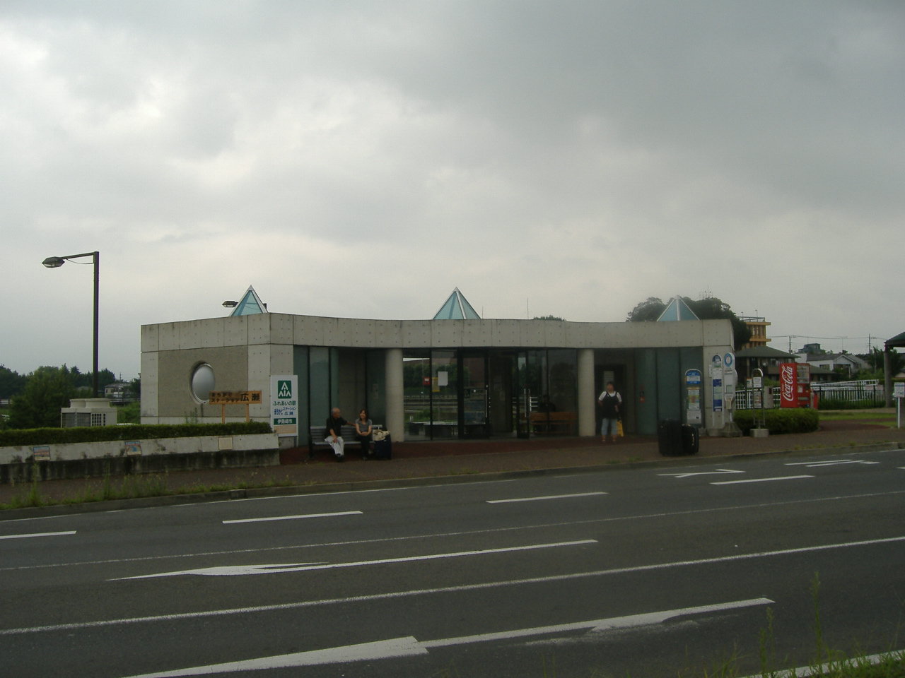 Bus stop "Machikado-Station_Hirose"(Isesaki, Gunma, Japan)